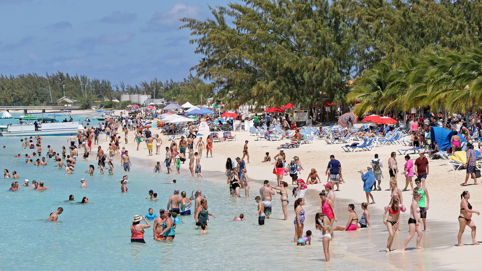 Grand Turk, South Beach